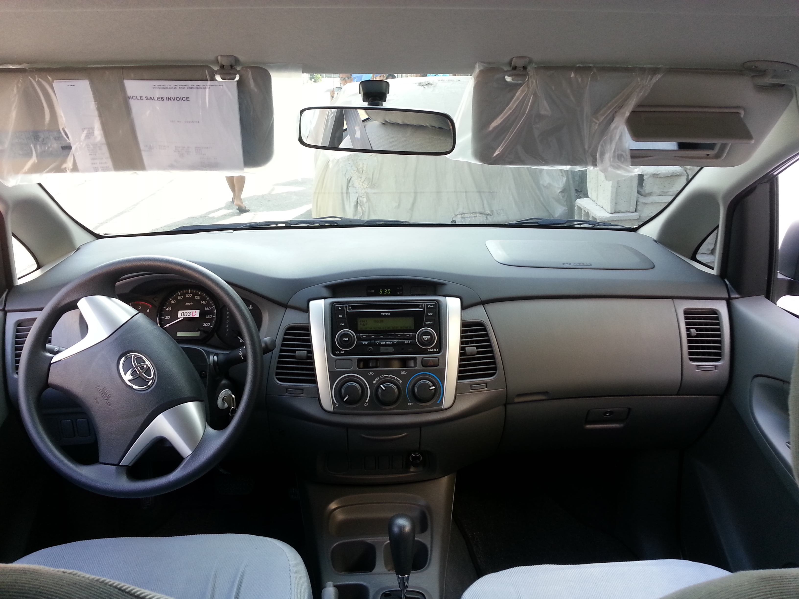 2013 Toyota Innova 2.5E A/T Diesel 8-Seater